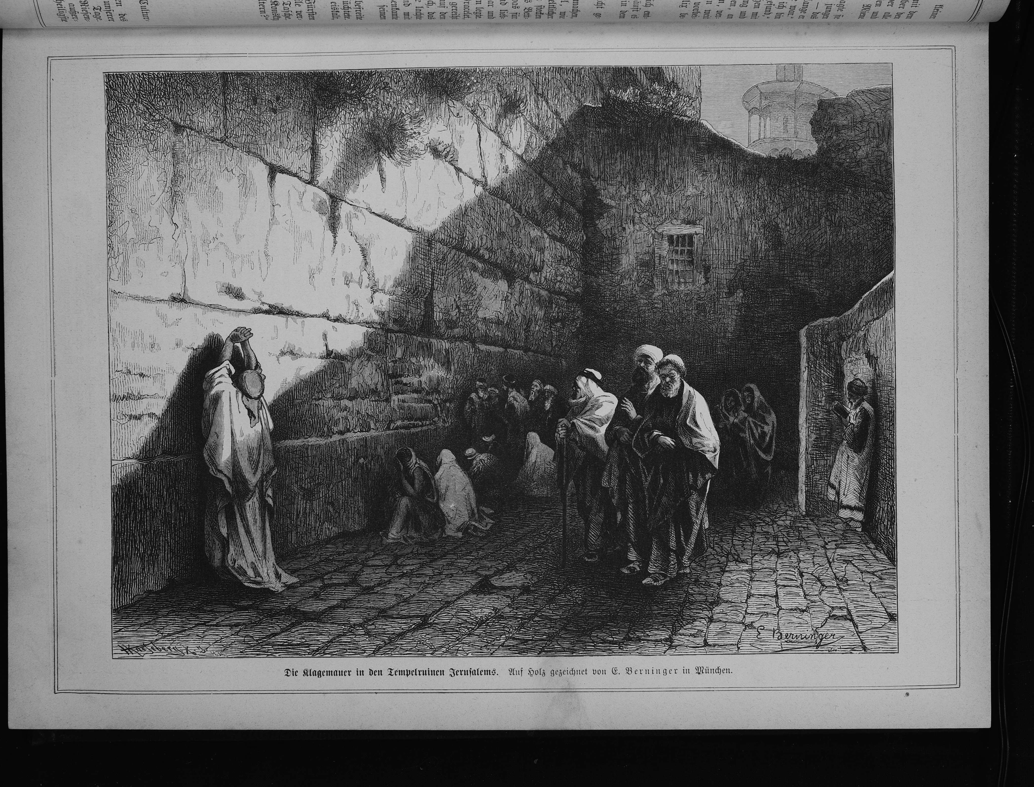 Page 297 from journal Die Gartenlaube for 1879. Extracted image (if any): File:Die Gartenlaube (1879) b 297.jpg - hi res, ~2.5 MB.